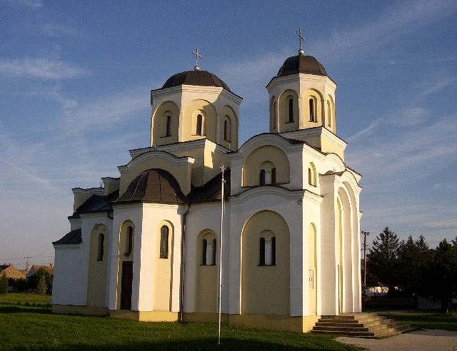 Nikinci_orthodox_church.jpg